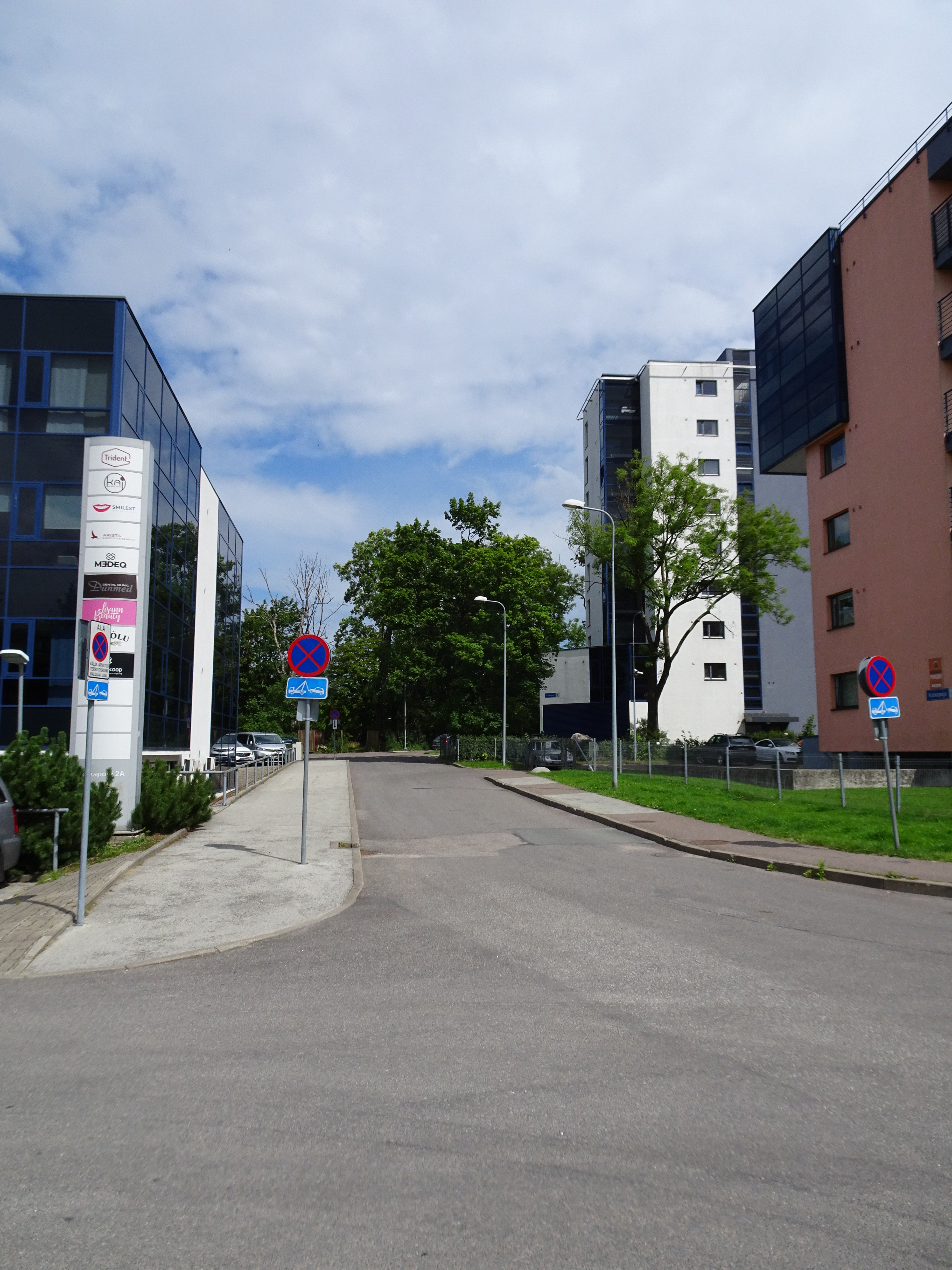 Kotkapoja Street in Tallinn, Estonia